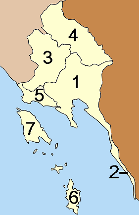 Map of the province Trat with the districts (Amphoe) numbered. Mueang Trat Khlong Yai Khao Saming Bo Rai Laem Ngop Ko Kut Ko Chang